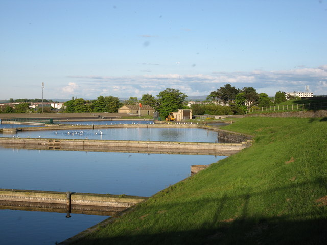 Alnwickhill Waterworks Alnwickhill Filter Beds soon to be replaced by new water treatment works at Glencourse